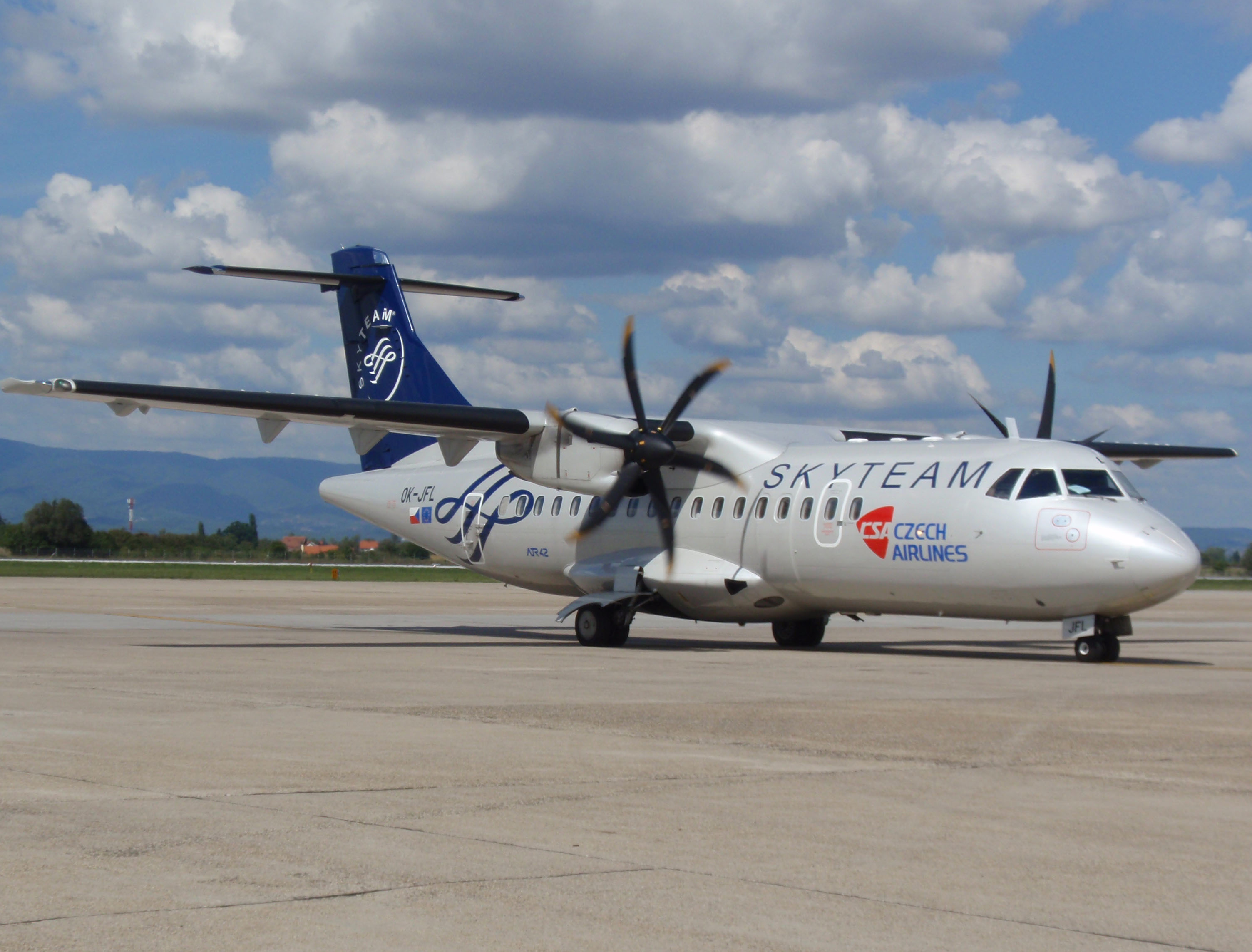 CSA ATR-42 with Skyteam paint design